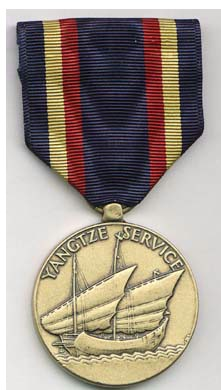 Front view of Yangtze Service Medal. other version: File:YangtzeMed.jpg50px